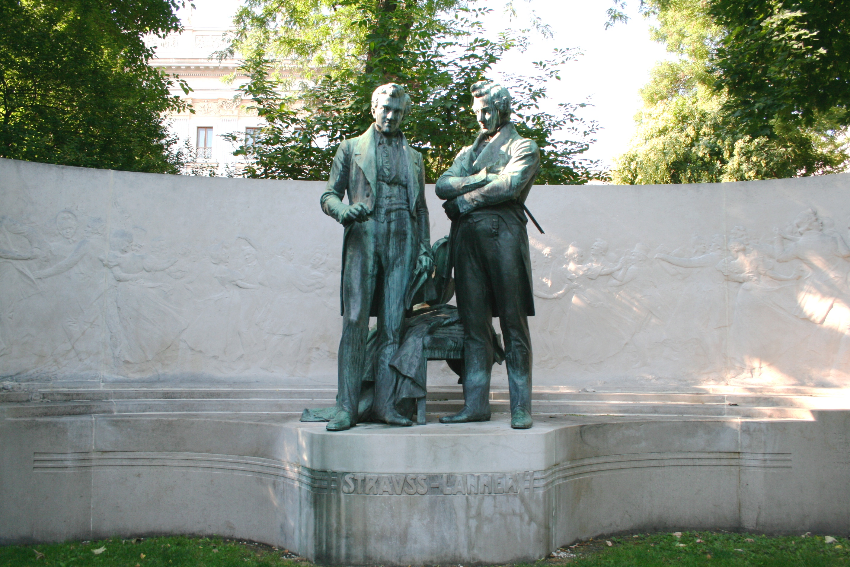 Monument to the two composers of the Viennese waltz, Johann Strauss father and Joseph Lanner. Park of the Vienna City Hall (Rathaus) Summer 2010